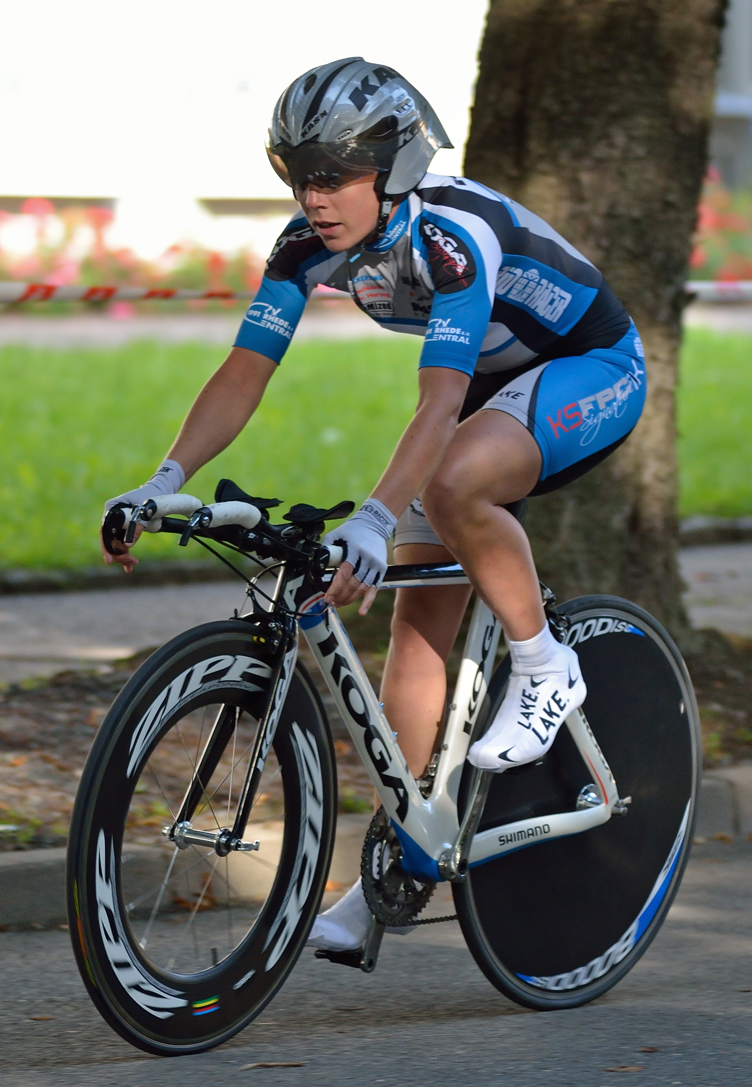 Esther Fennel from the team Koga Ladies – Central Rhede – Fachklinik Dr. Herzog during the Women's Tour of Thuringia 2012 in Zwickau, Germany.